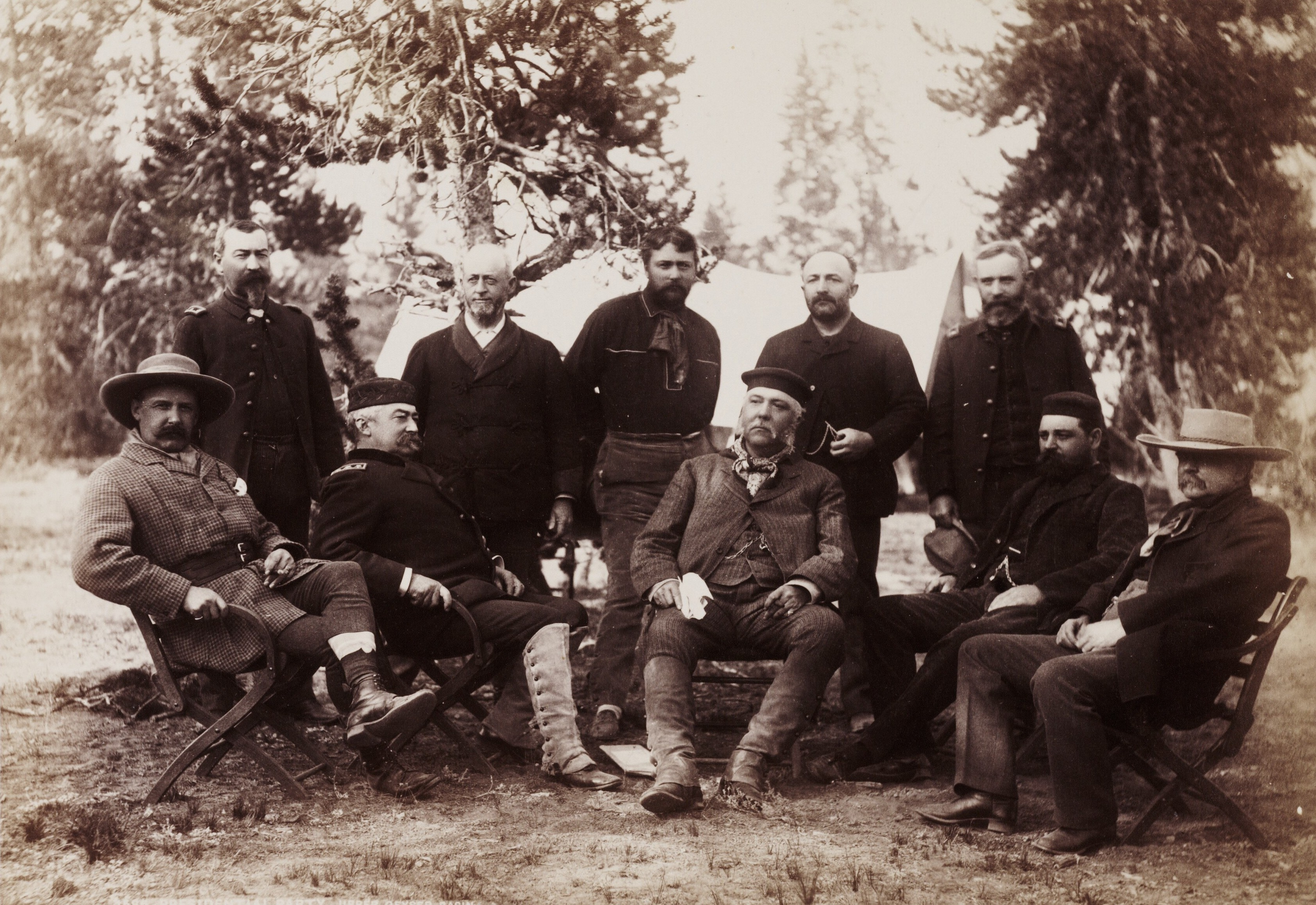 Photograph is group portrait of members of Chester A. Arthur's expedition to Yellowstone National Park. Left to right: John Schuyler Crosby, Lt. Col. Michael V. Sheridan. Lt. Gen. Philip H. Sheridan, Anson Stager, unidentified, President Arthur , unidentified, unidentified, Robert Todd Lincoln, and George G. Vest. Unidentified men may be Daniel G. Rollins, James F. Gregory, W.P. Clark, W. H. Forwood, and/or George G. Vest, Jr.